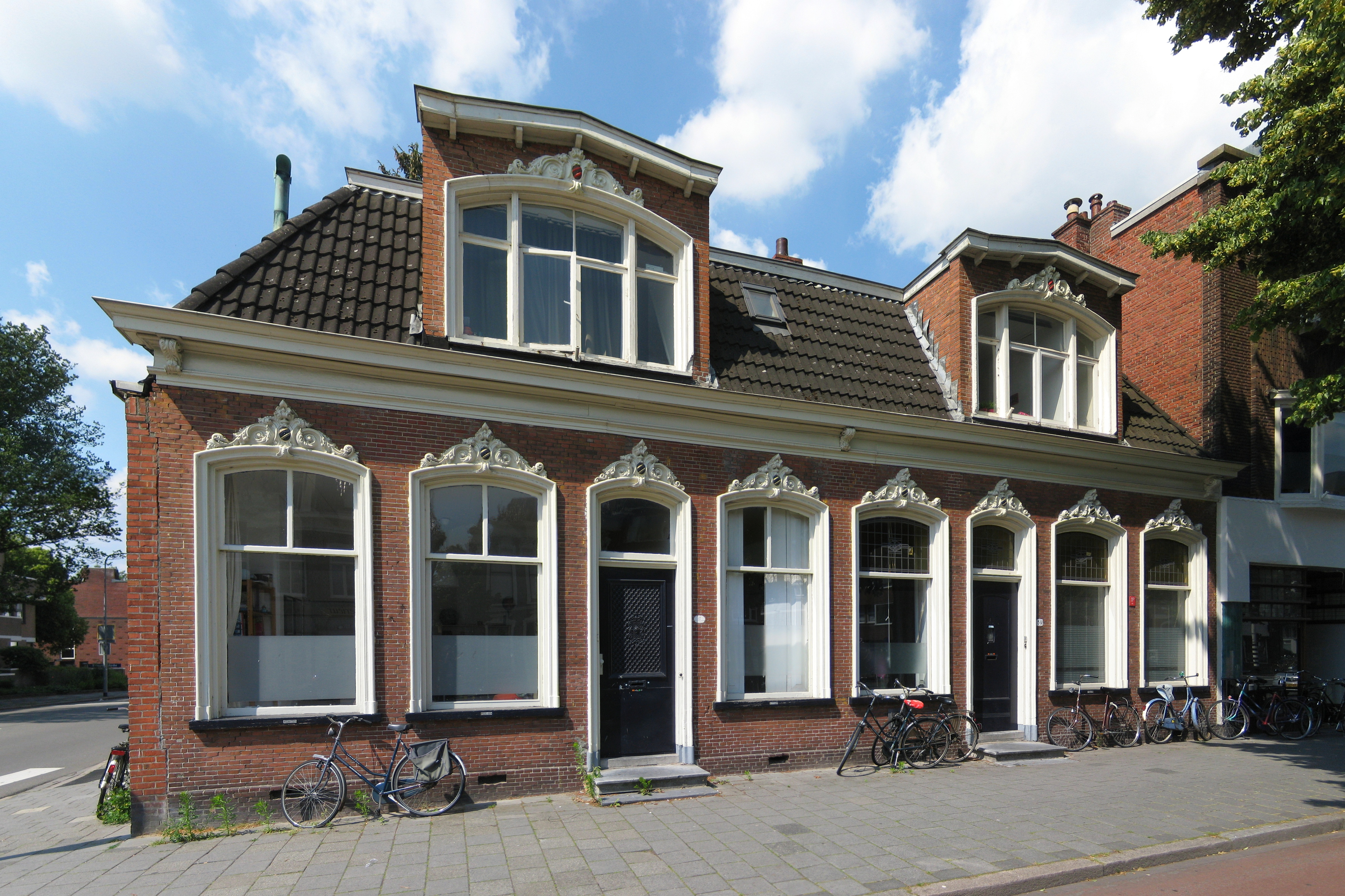 Two houses (c. 1885) in the Dutch city of Groningen.